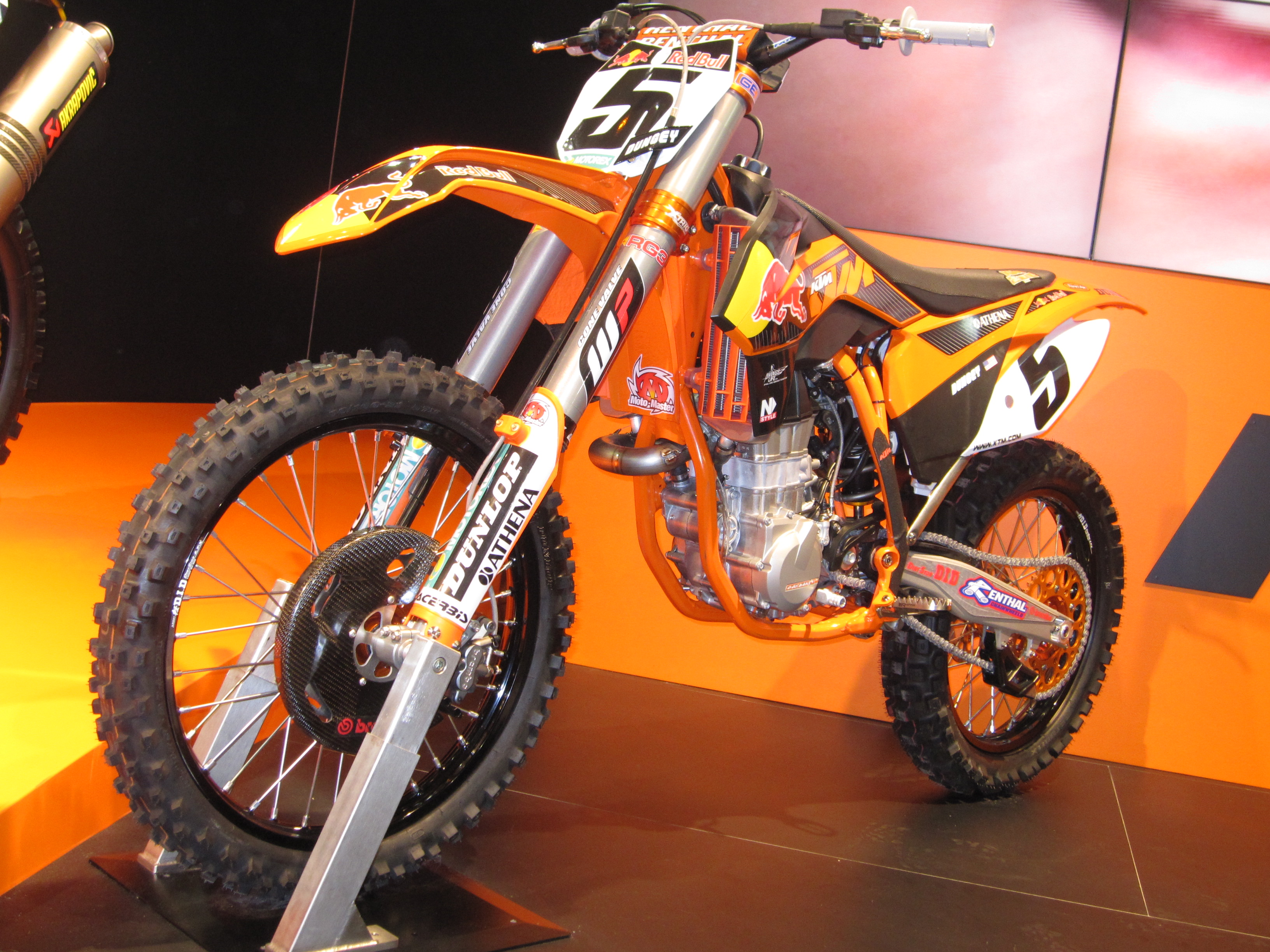 KTM SX-F 450 used by Ryan Dungey in the Supercross world championship (the AMA SX championship) in 2011 Picture taken at Milan motorcycle show 2011 (eicma)